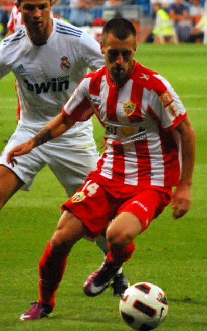 Spanish football player Antonio Luna Rodríguez while playing for UD Almería